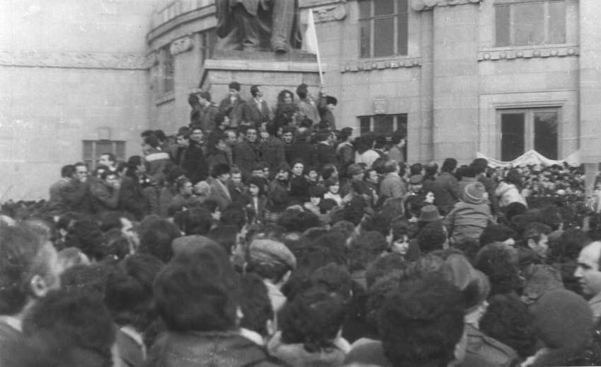 Yerevan demonstration on theater square. Summer-1988.